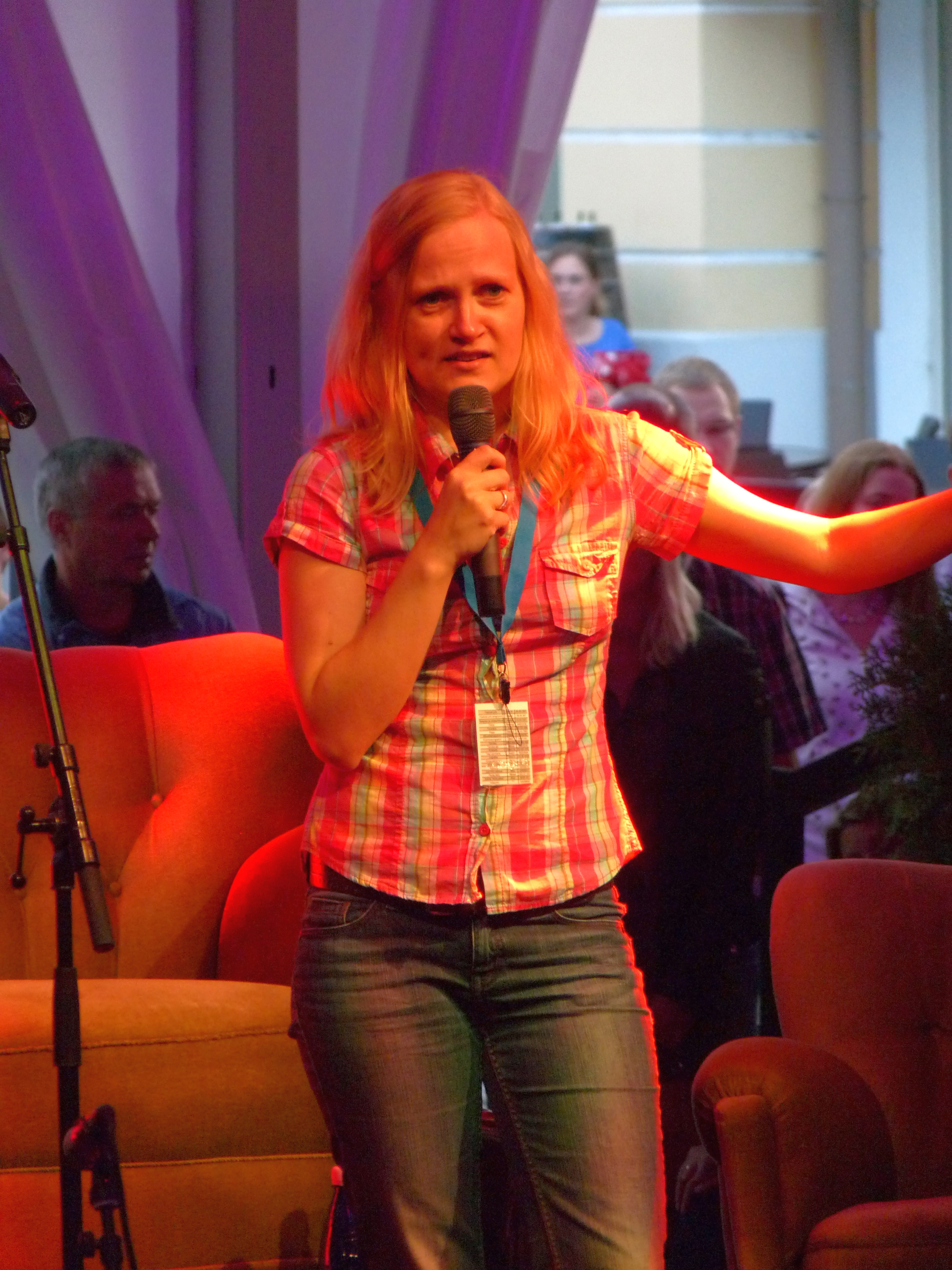 Estonian stand-up comedian Keiu Kriit performing on the film festival tARTuFF in Tartu, on Raekoja plats, on August 9, 2012. Photo: User:Oop.